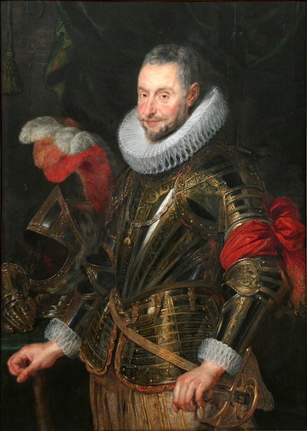 Depicted person: Ambrogio Spinola, 1st Marquis of the Balbases – Italian general